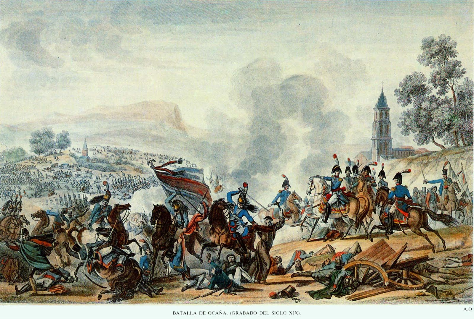 the battle of Ocaña (1809)